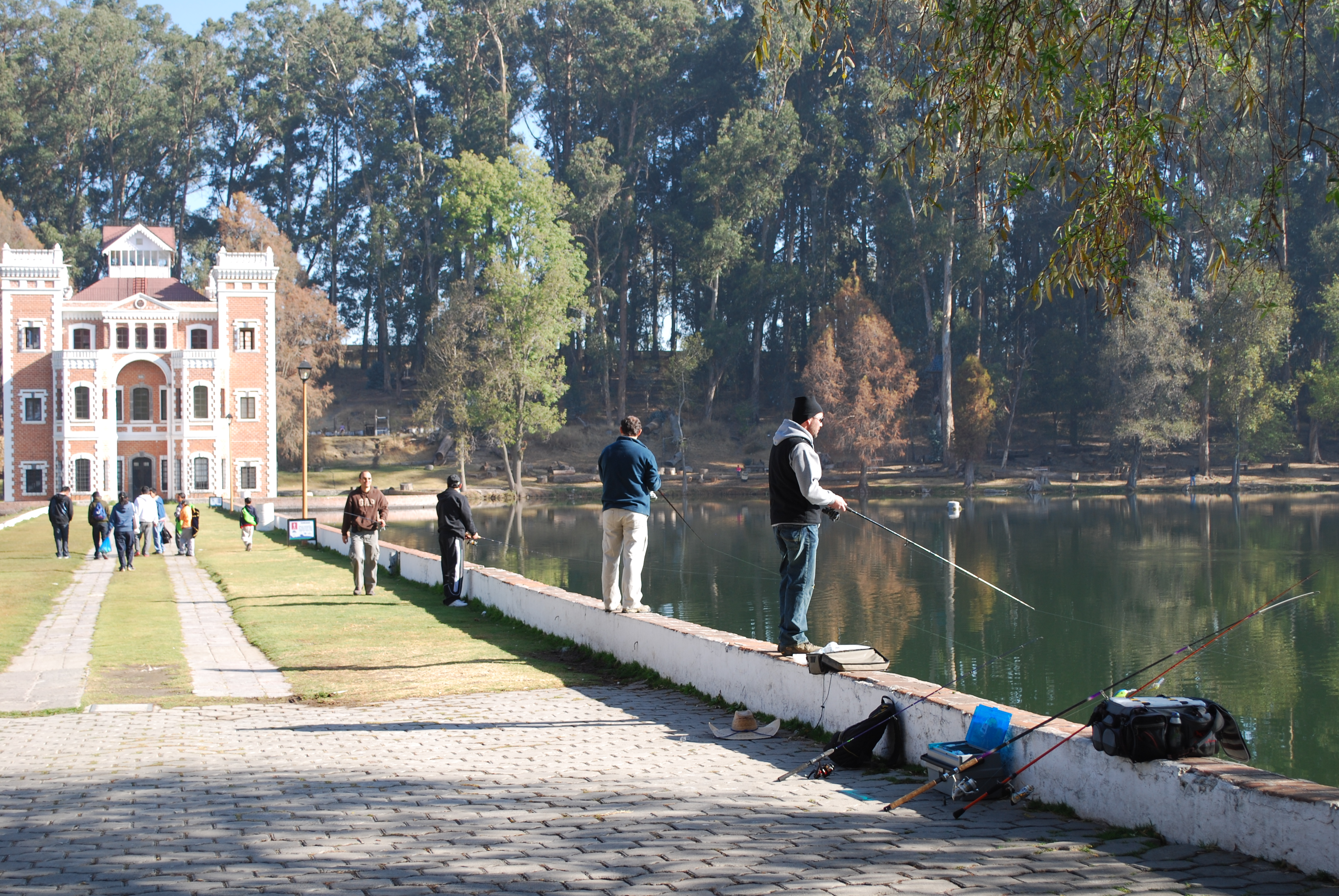 People fishing at the Chautla Hacienda in San Salvador el Verde, Puebla, Mexico